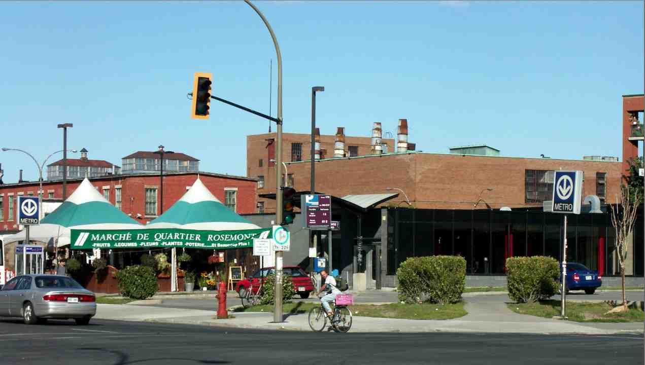 Rosemont Metro station, Montreal. Photo by: User:Gene.arboit